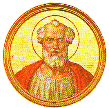 Pope Dionysius at St Paul Outside Walls